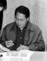 Senator Ed Angara